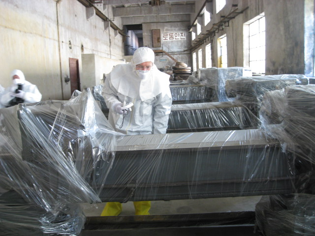 Yongbyon Nuclear Scientific Research Center, North Korea - Fuel fabrication facility. Siegfried Hecker examining machining lathes removed from machine shop.